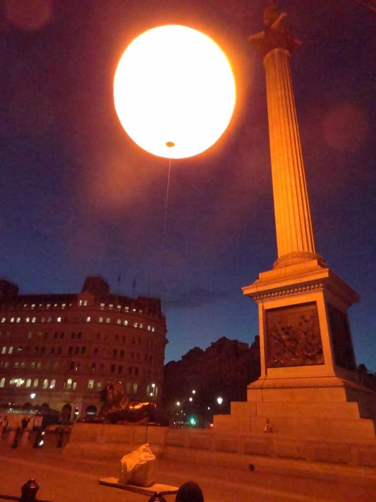 This image is of greyworld's Trafalgar Sun (2012) artwork.